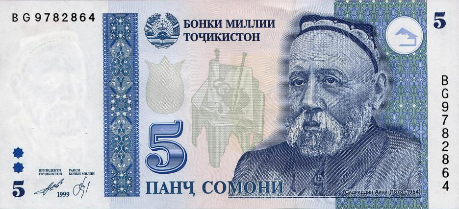 5 Tajikistan somoni 1999 Тоҷикӣ: 5 сомонии тоҷикистонӣ (тоҷикӣ), соли 1999